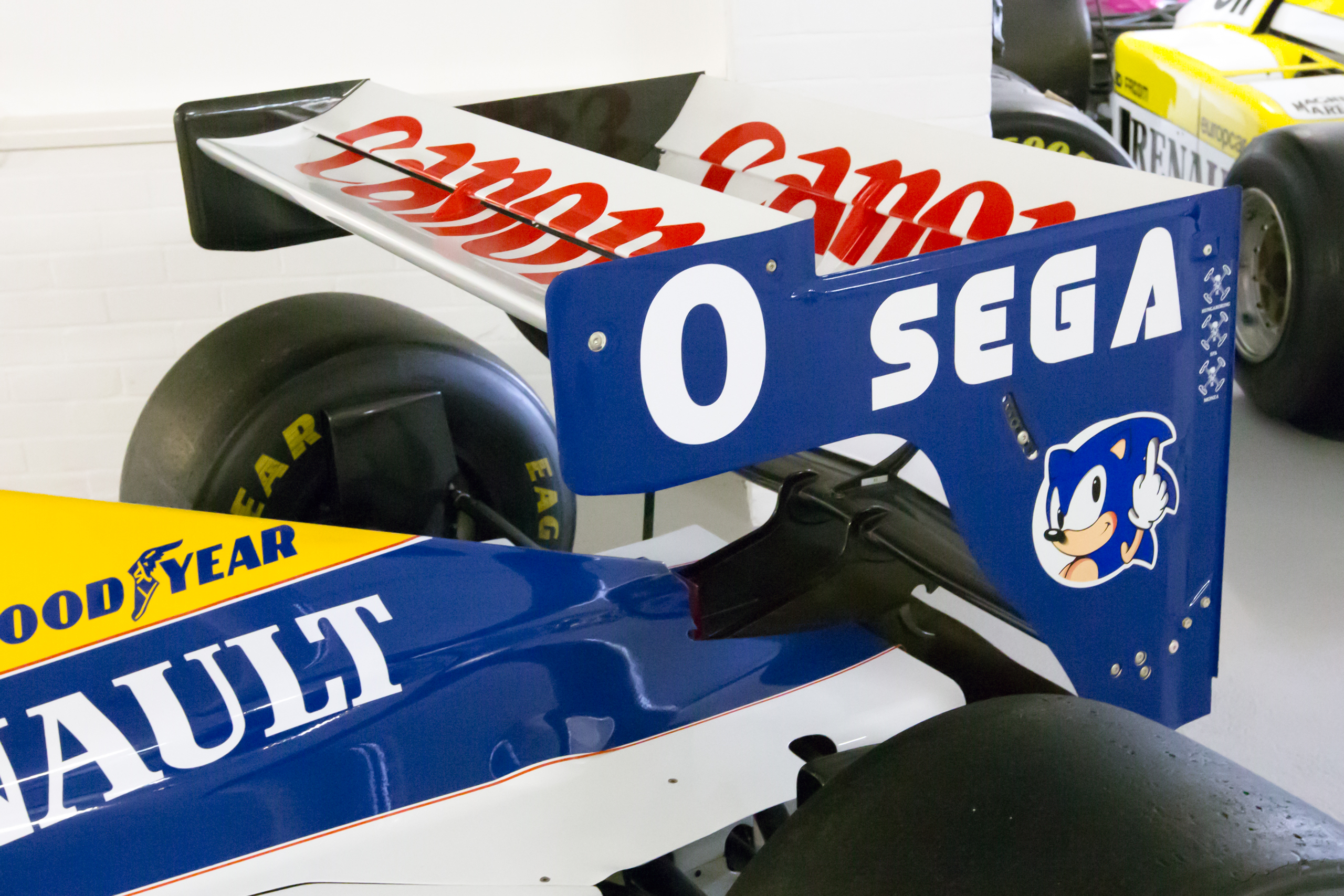 1993 Williams FW15C (#0 Damon Hill); rear wings